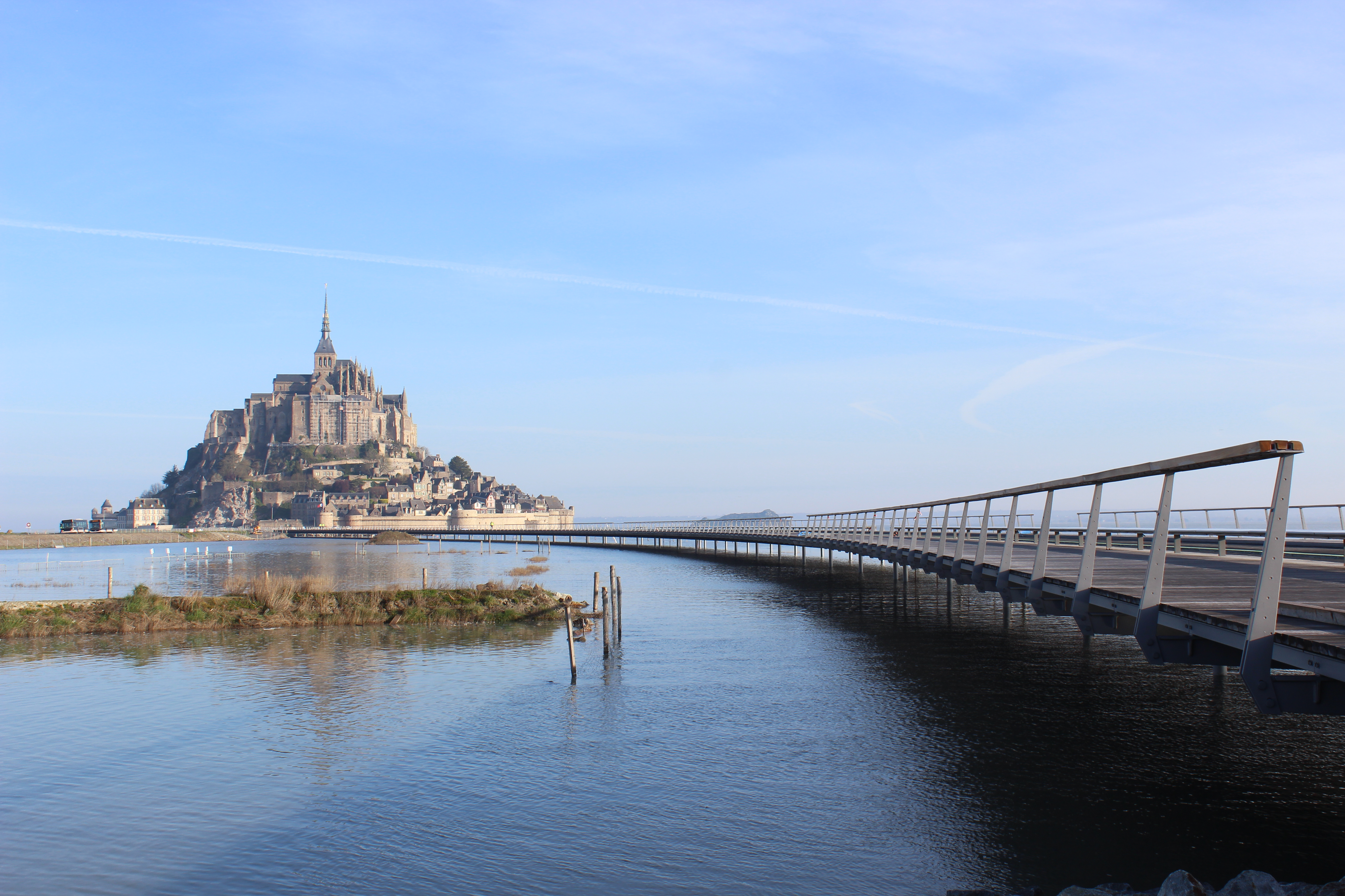 The Mont Saint-Michel en Normandy and its new Jetty at high tide